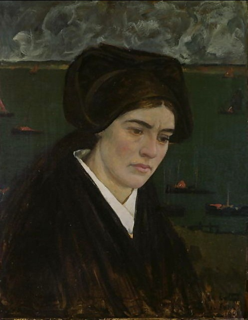 Young woman at Ile de Sein